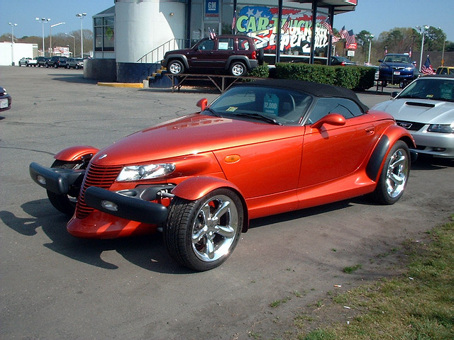 Plymouth Prowler